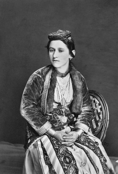 Greek woman in Trebizond, in the smart clothes with embroidery and fur. Turkey. Greeks. Photographer D.N. Ermakov. 1881